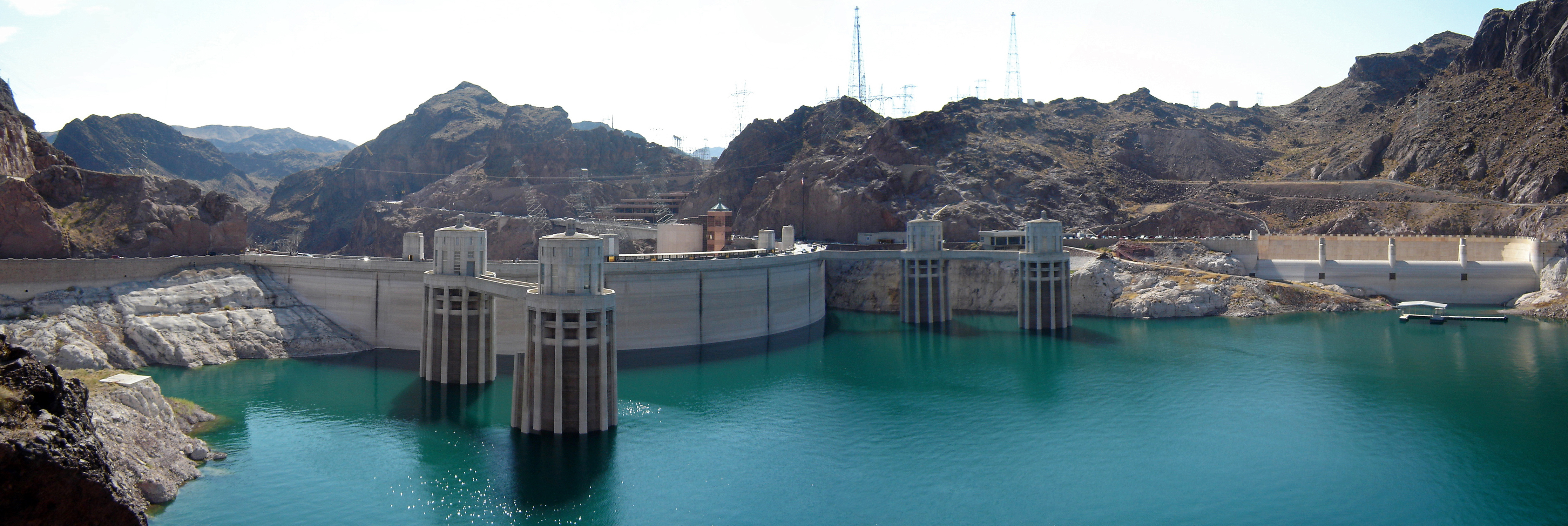 Panoramic view of Hoover Dam from the Arizona side